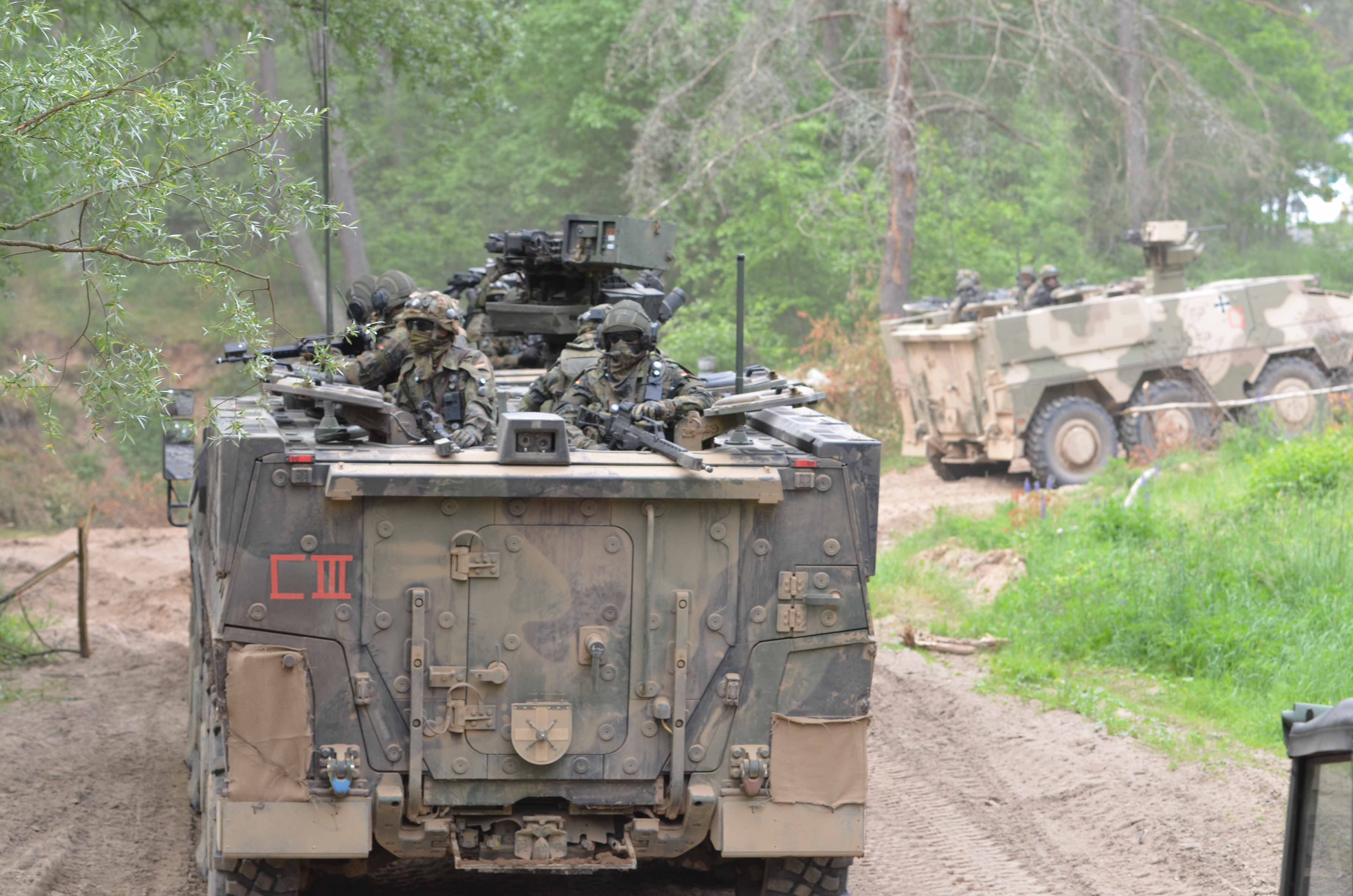 German Soldiers train with NATO during Saber Strike 15